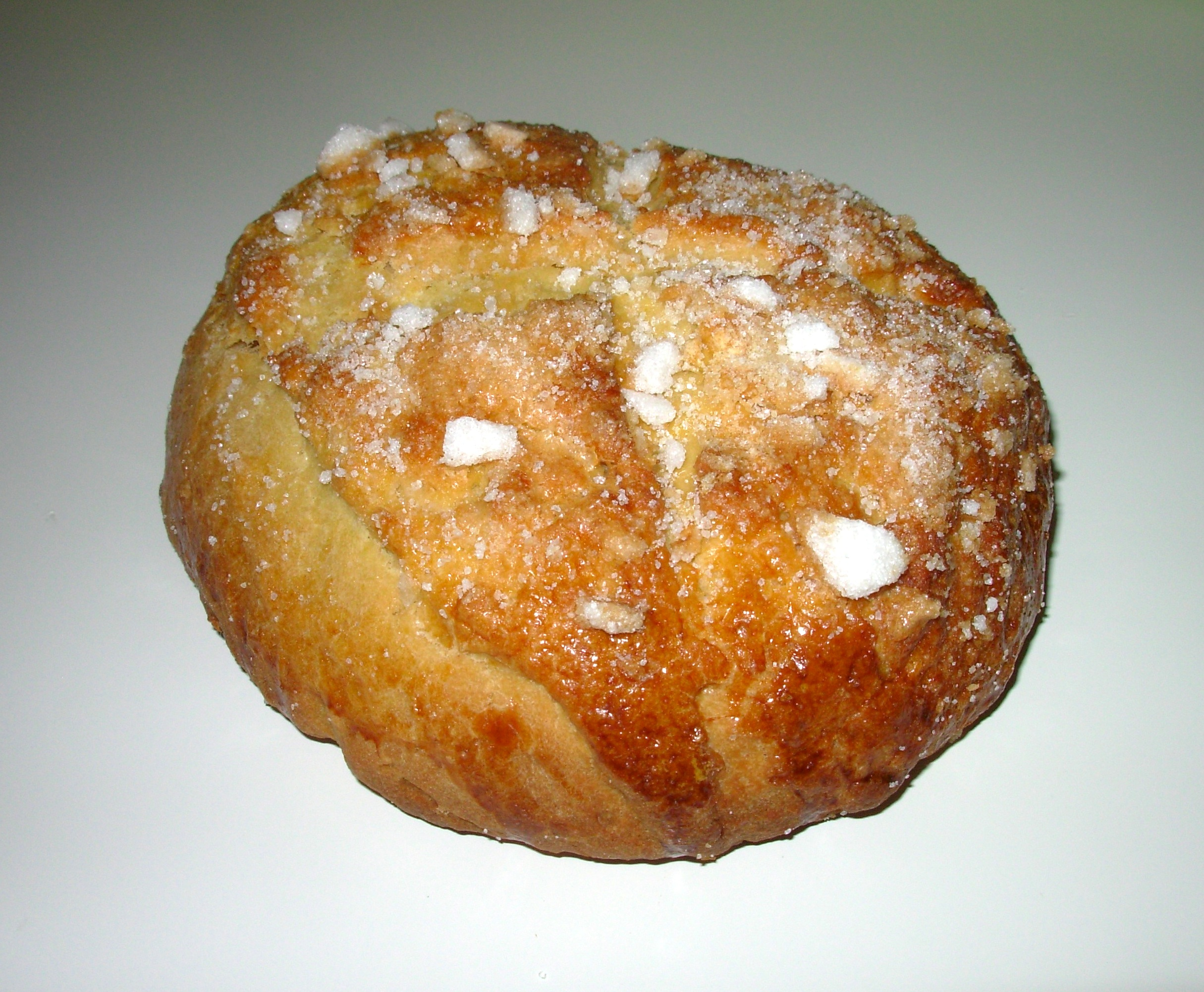 Pied noir Mouna